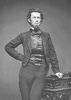 Robert H. Hatton, American politician and Confederate General from